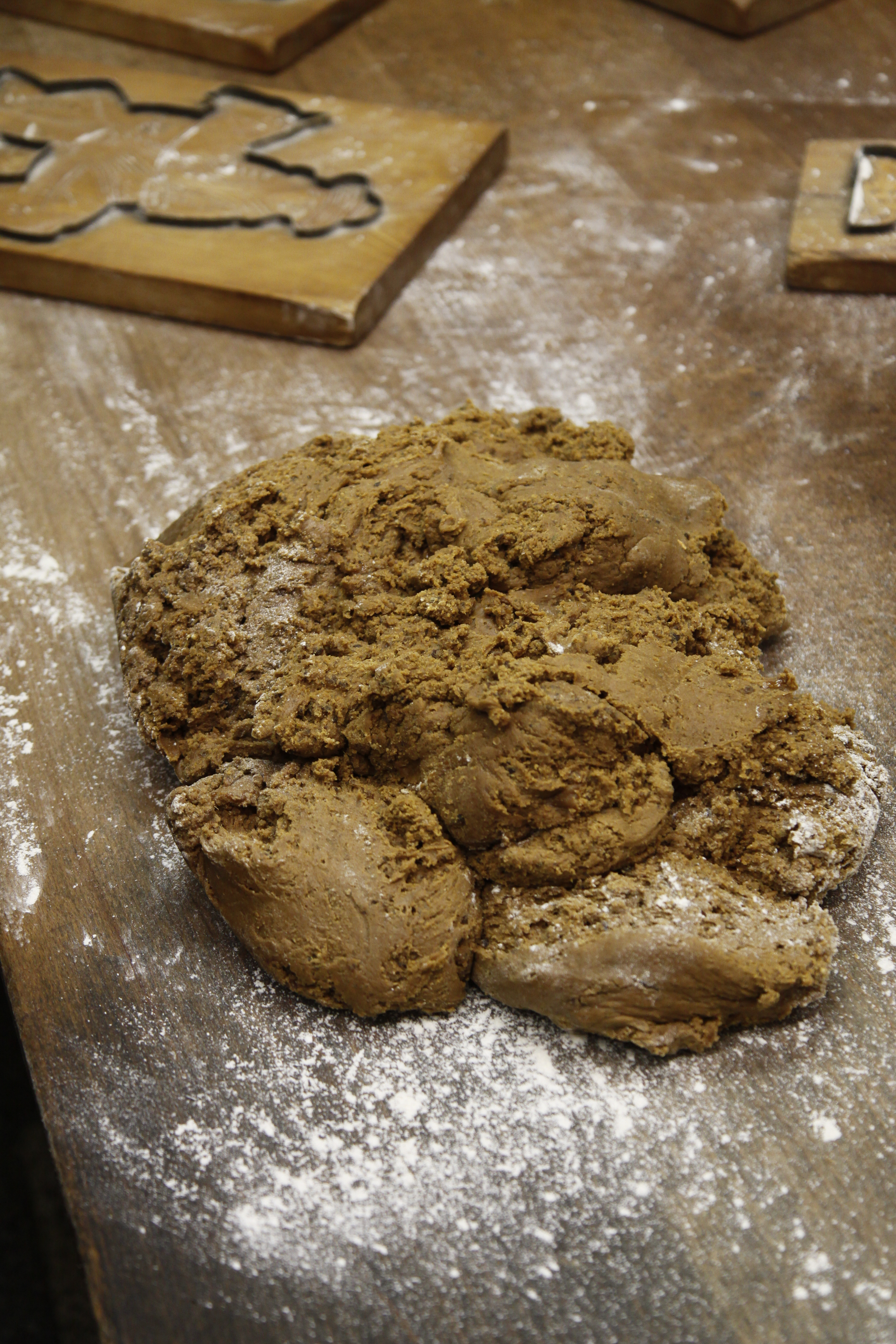 Dough for Aachener Printen